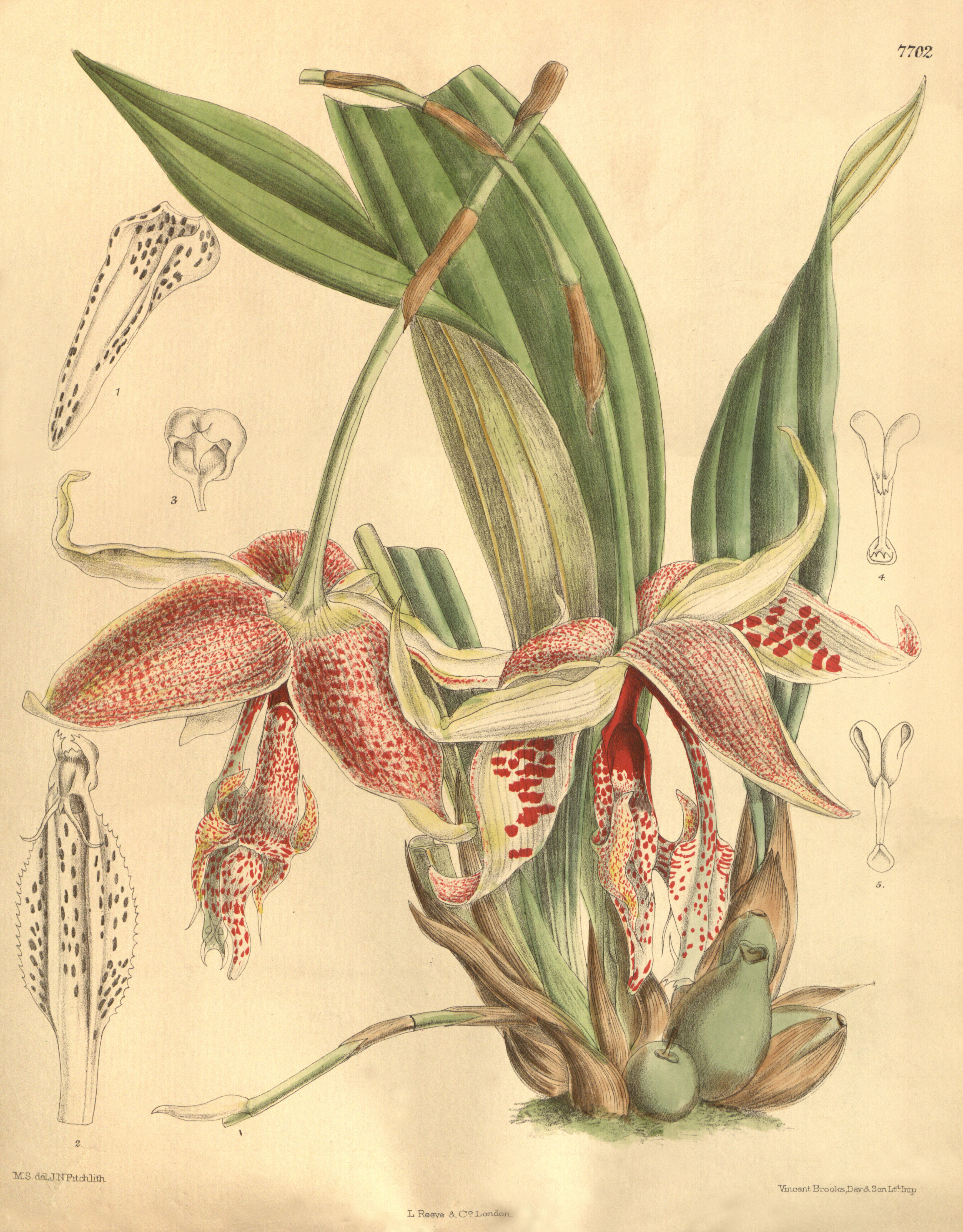 Illustration of Embreea rodigasiana (as syn. Stanhopea rodigasiana)